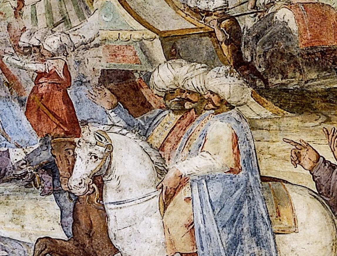 Detail of the fresco "Assedio e batteria di S. Elmo. 27.05.1565"